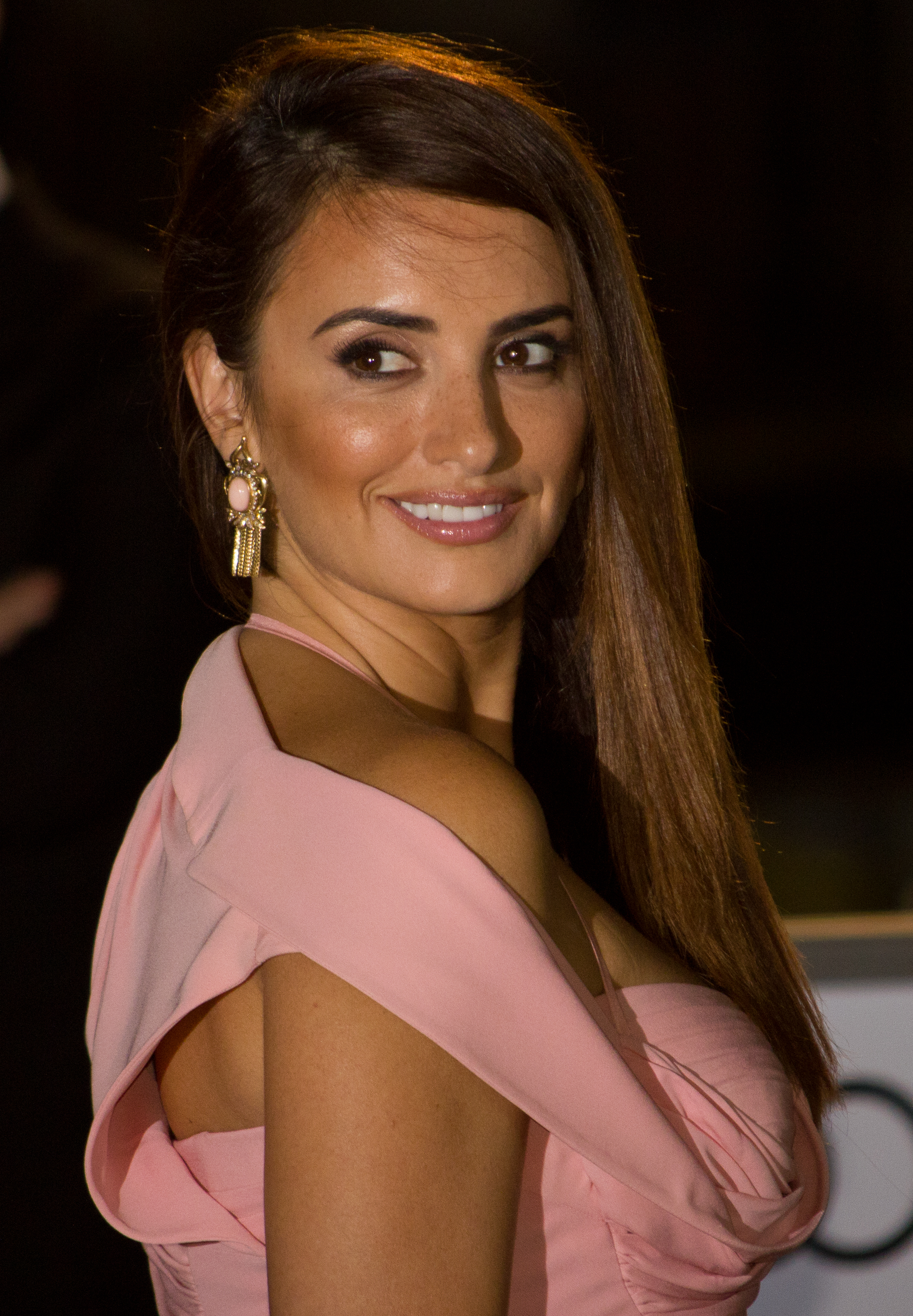 Penélope Cruz at the Toronto International Film Festival 2012.